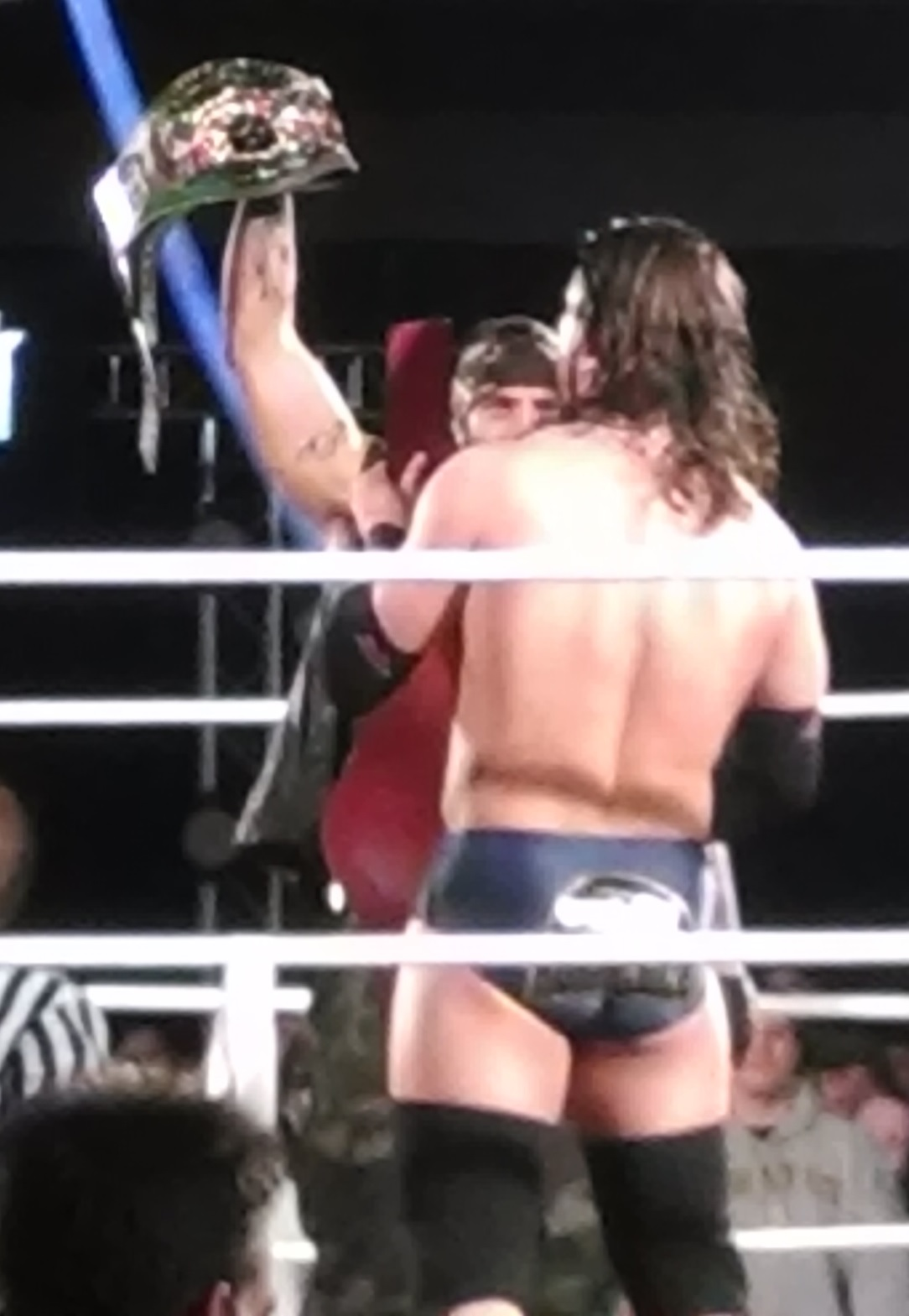 Image of Jay Briscoe showing ROH World Champion Adam Cole his "Real World Champion" belt at Wrestling's Finest in Pittsburgh on January 25th, 2014.